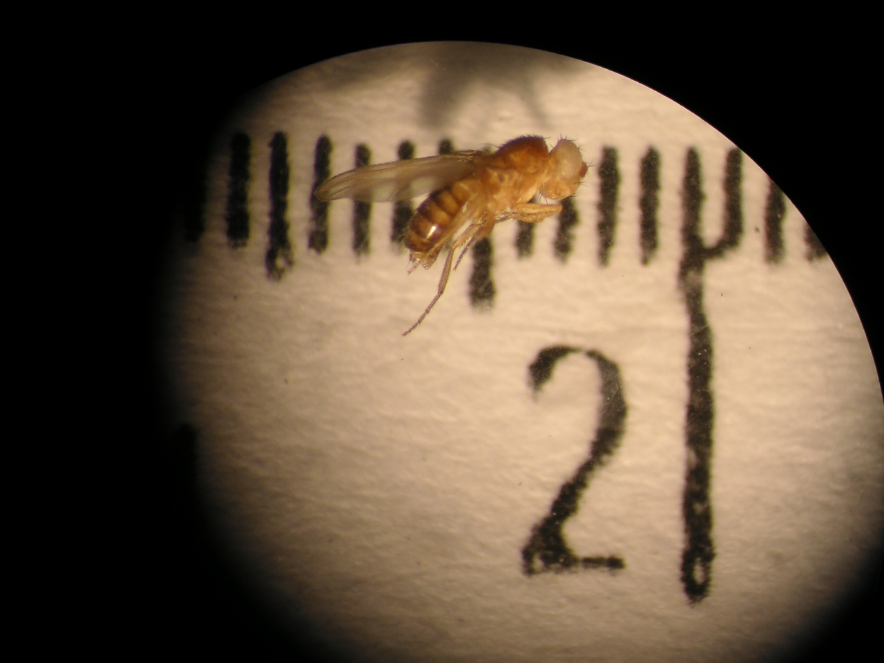 A white-eyed mutant Drosophila fruit fly, photographed through a binocular microscope.